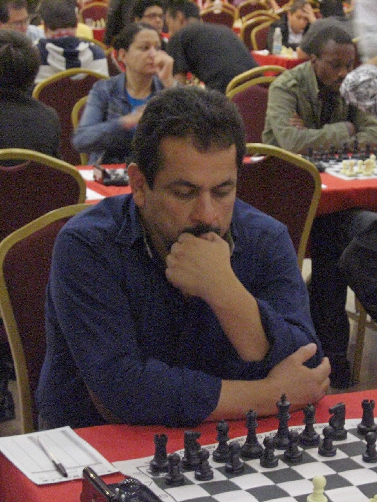 Roberto Martin Del Campo during the American Continental Chess Championship in Toluca (Mexico), April 2011